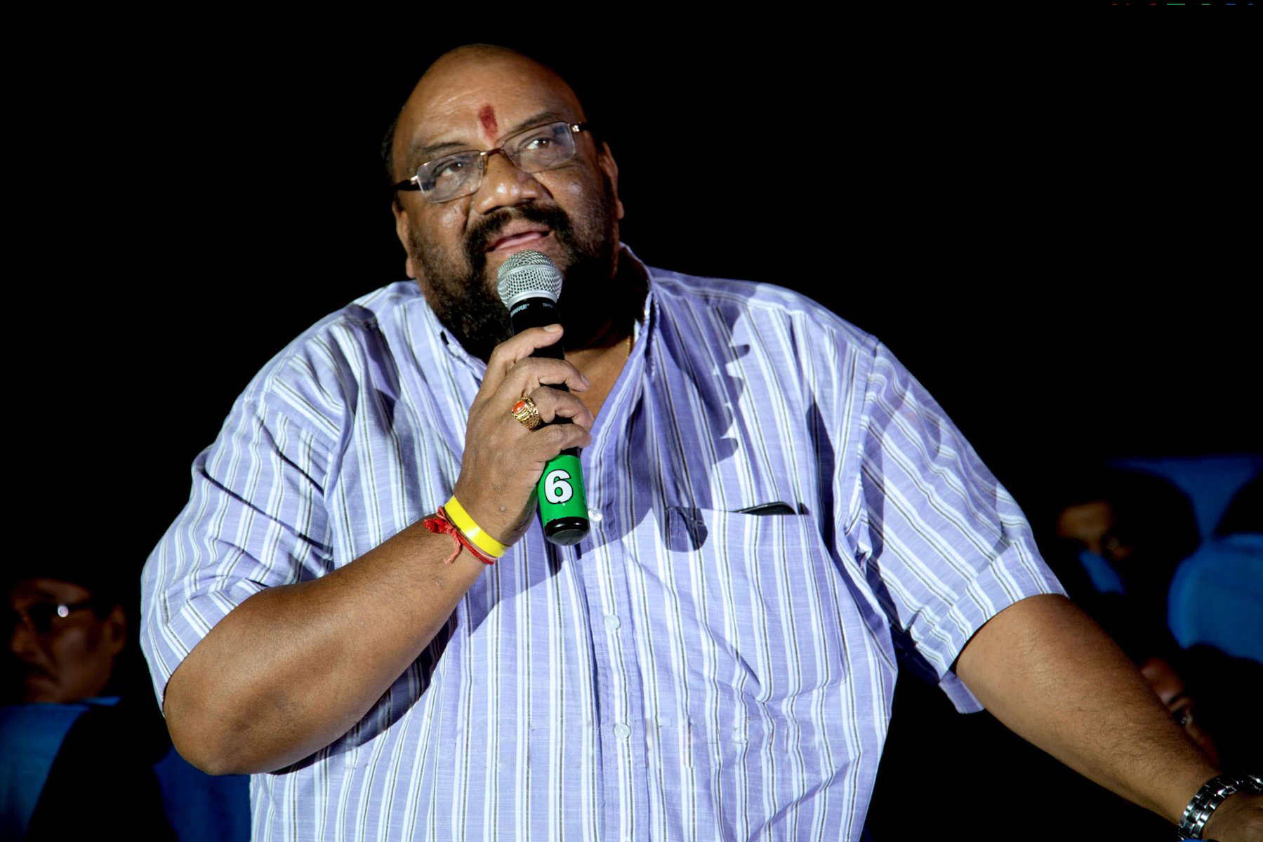 Santhana Bharathi at Sathuranga Vettai Audio Launch